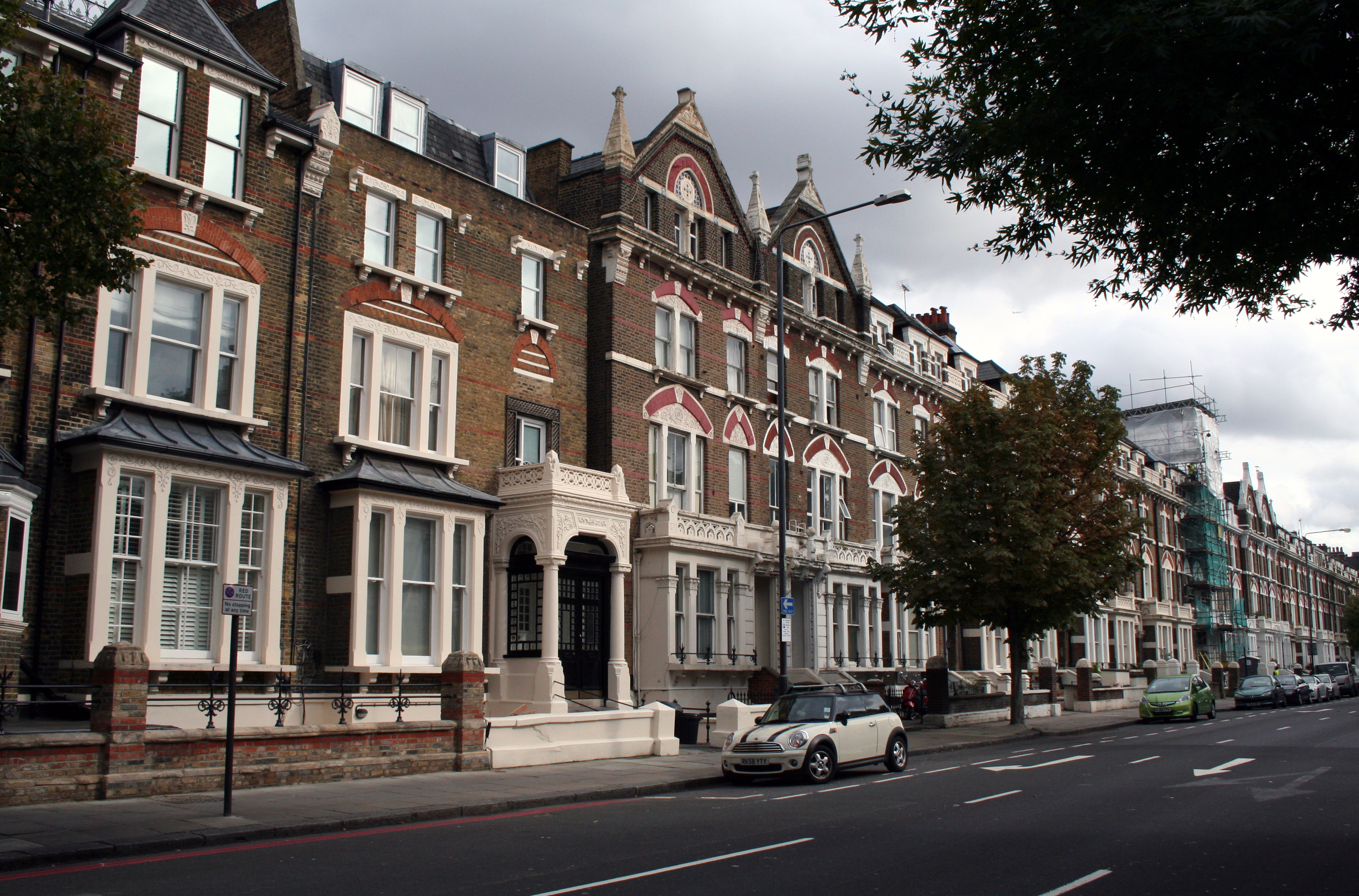 Kensington: 92 and 90, Holland Road